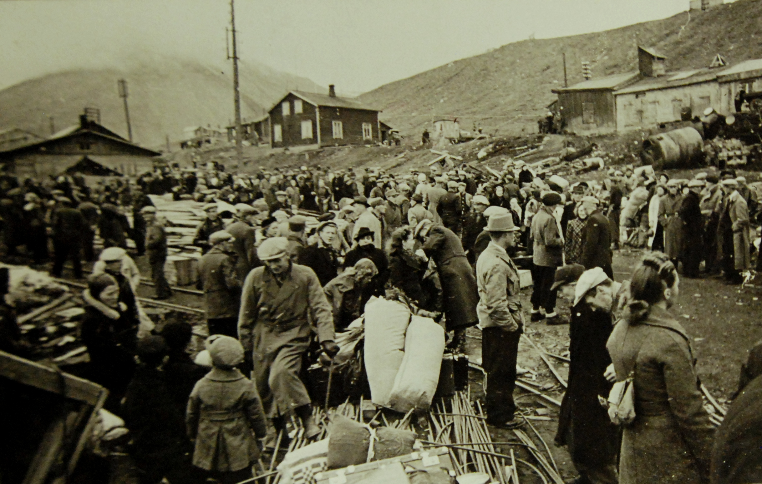 Lot 11609-2: Operation Gauntlet, August-September 1941. Allied Landing on Spitzbergen: Canadian and British and Norwegians stop enemy fuel source, bringing rescued Norwegians to Britain. Shown are the Spitzbergen Norwegians ready to board a ship which carried them to Britain, following the Canadian landing. Office of War Information Photograph. (2015/10/23).